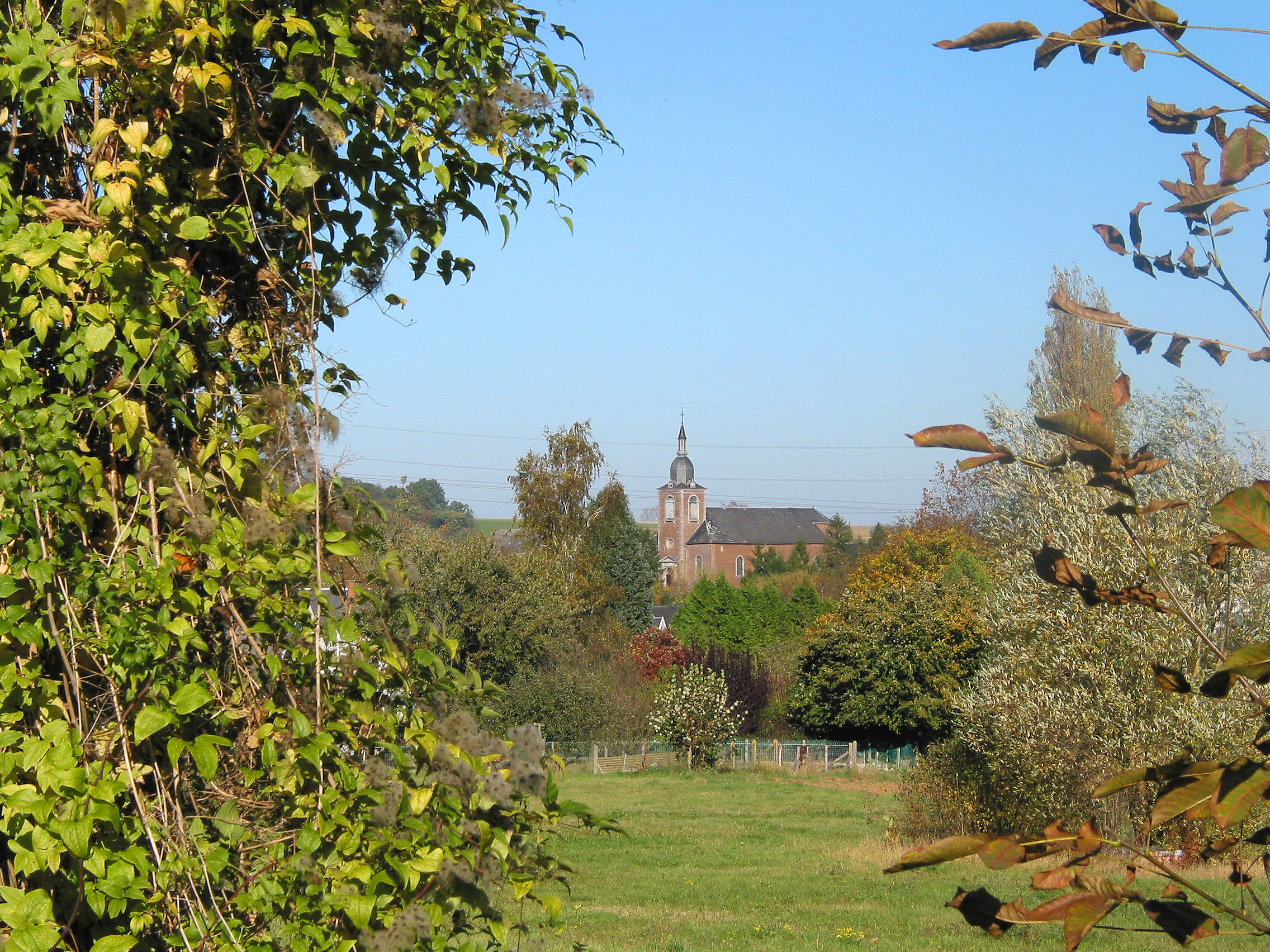 La Bruyère (Belgium), the St. Desiderius' church (1841-1845).